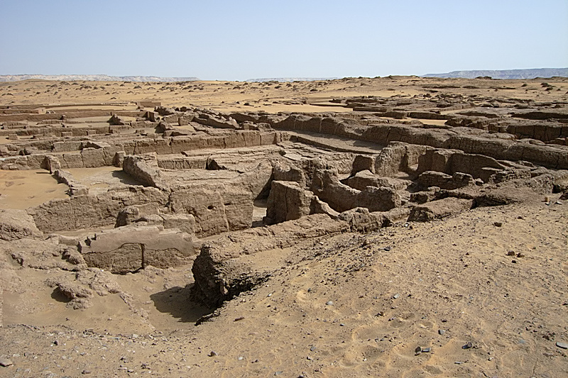 Archaeological site of 'Ain Amur, detail, Libyan Desert, Egypt